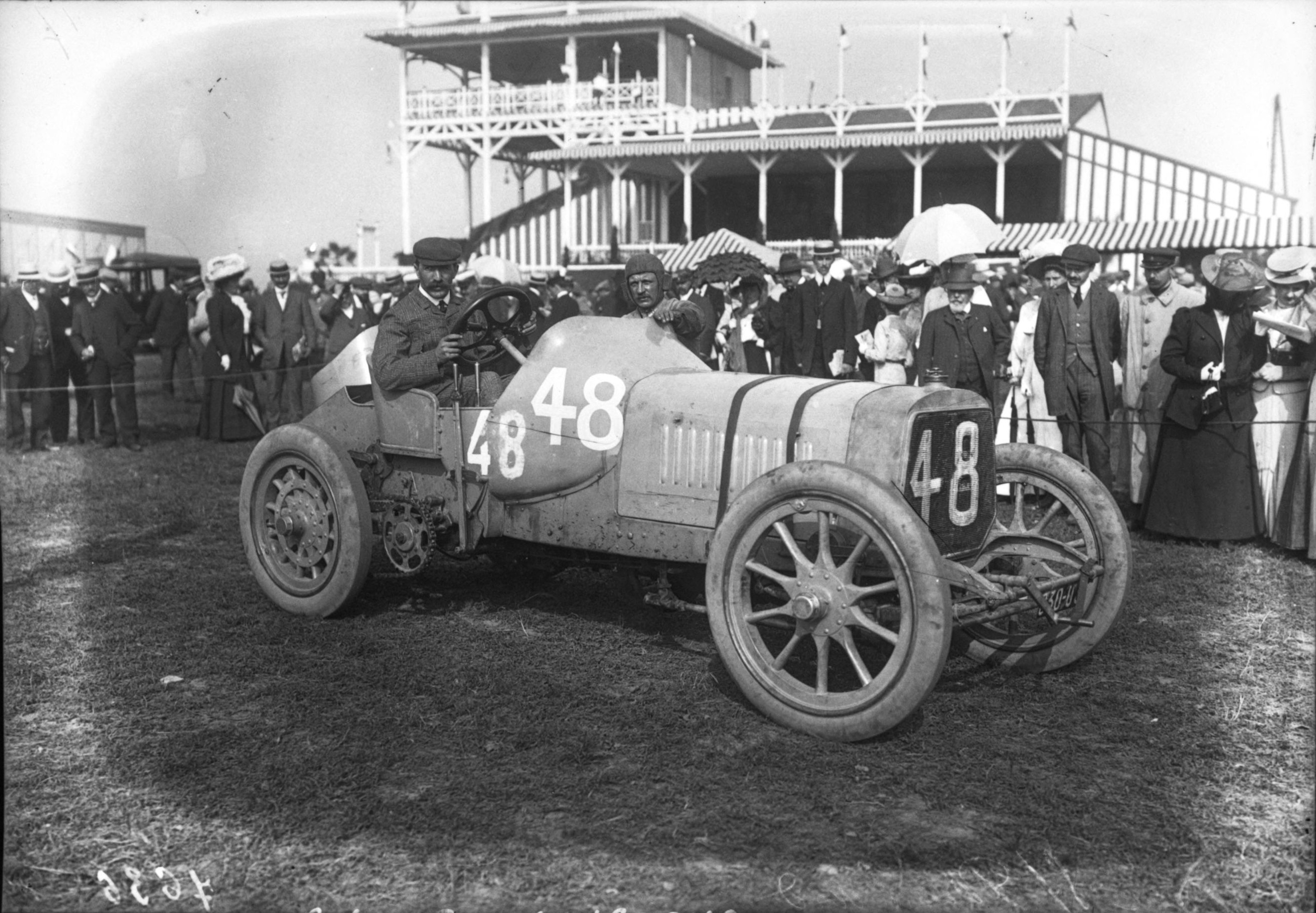 Henri Cissac in his Panhard-Levassor at the 1908 French Grand Prix at Dieppe.